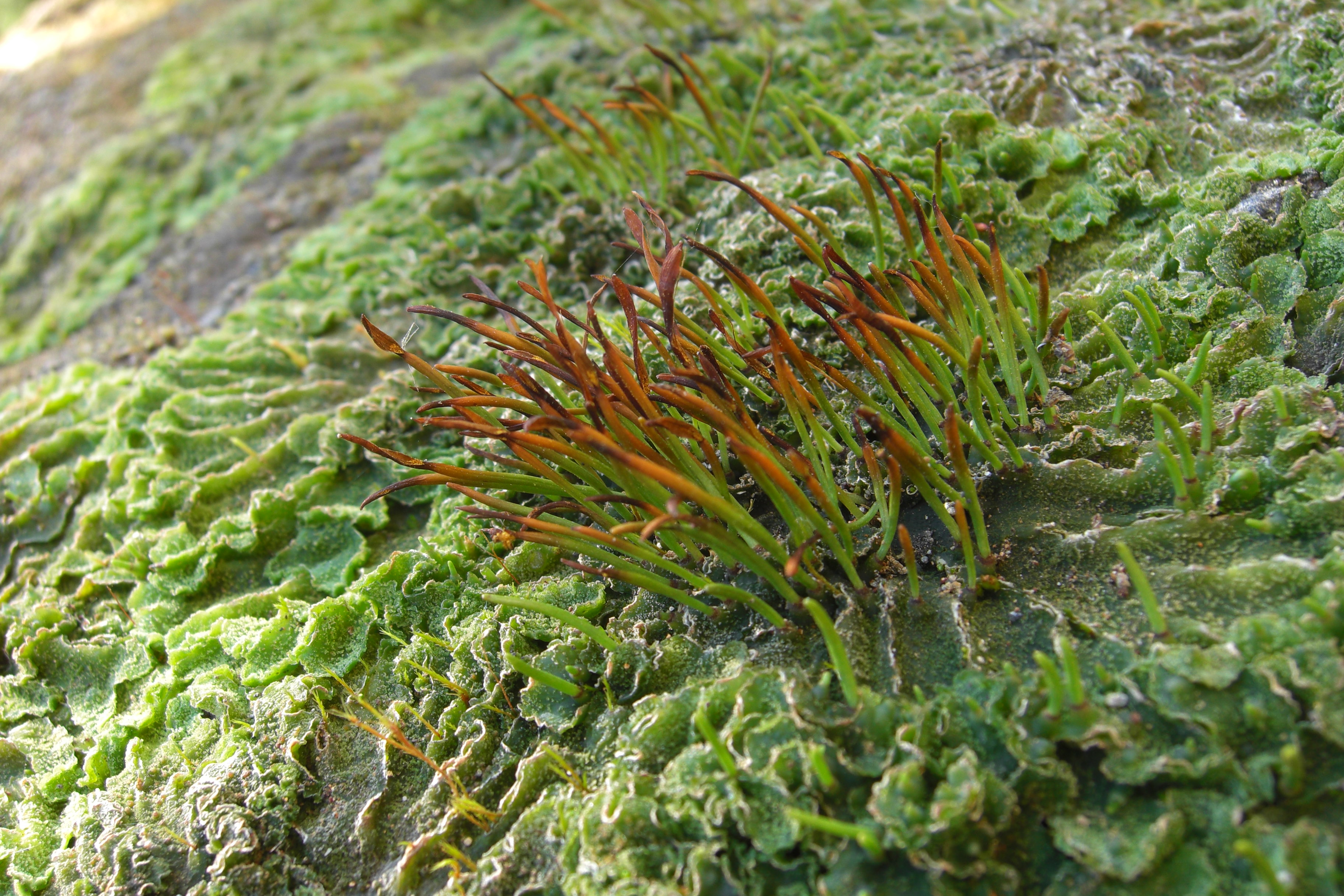 Hornwort, found on a road cut above the "mirador" just south of Las Cascadas by Vn. Osorno. Probably a member of the family Dendrocerotaceae.